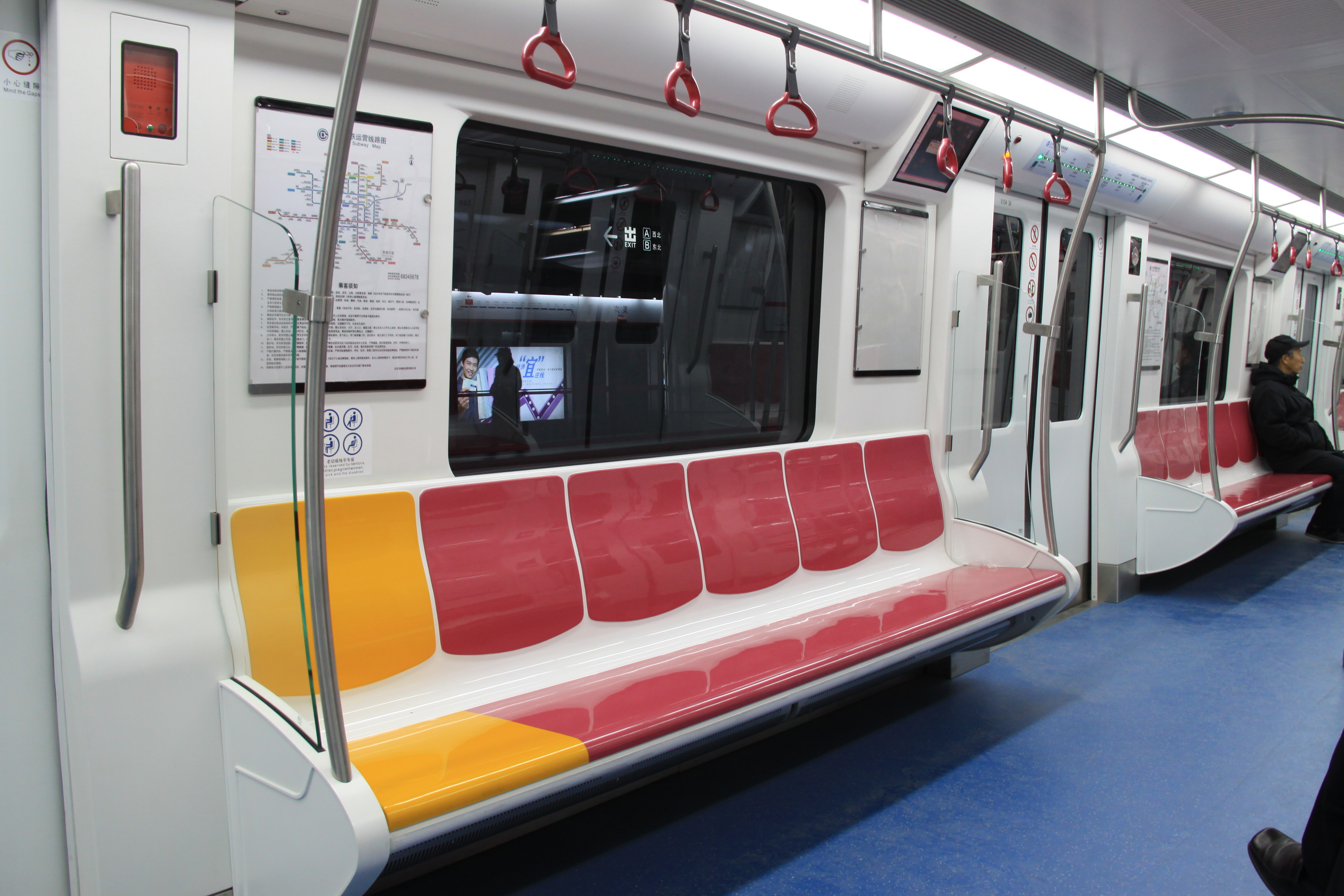 Seats of Beijing Subway Yizhuang line's train